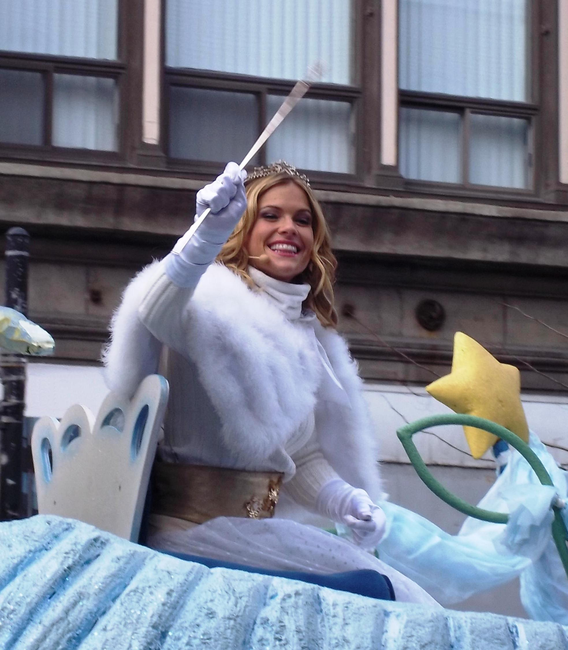 The singer and actress Ima personifying the Star Fairy during Santa Claus Parade, on Saint Catherine Street, Montreal